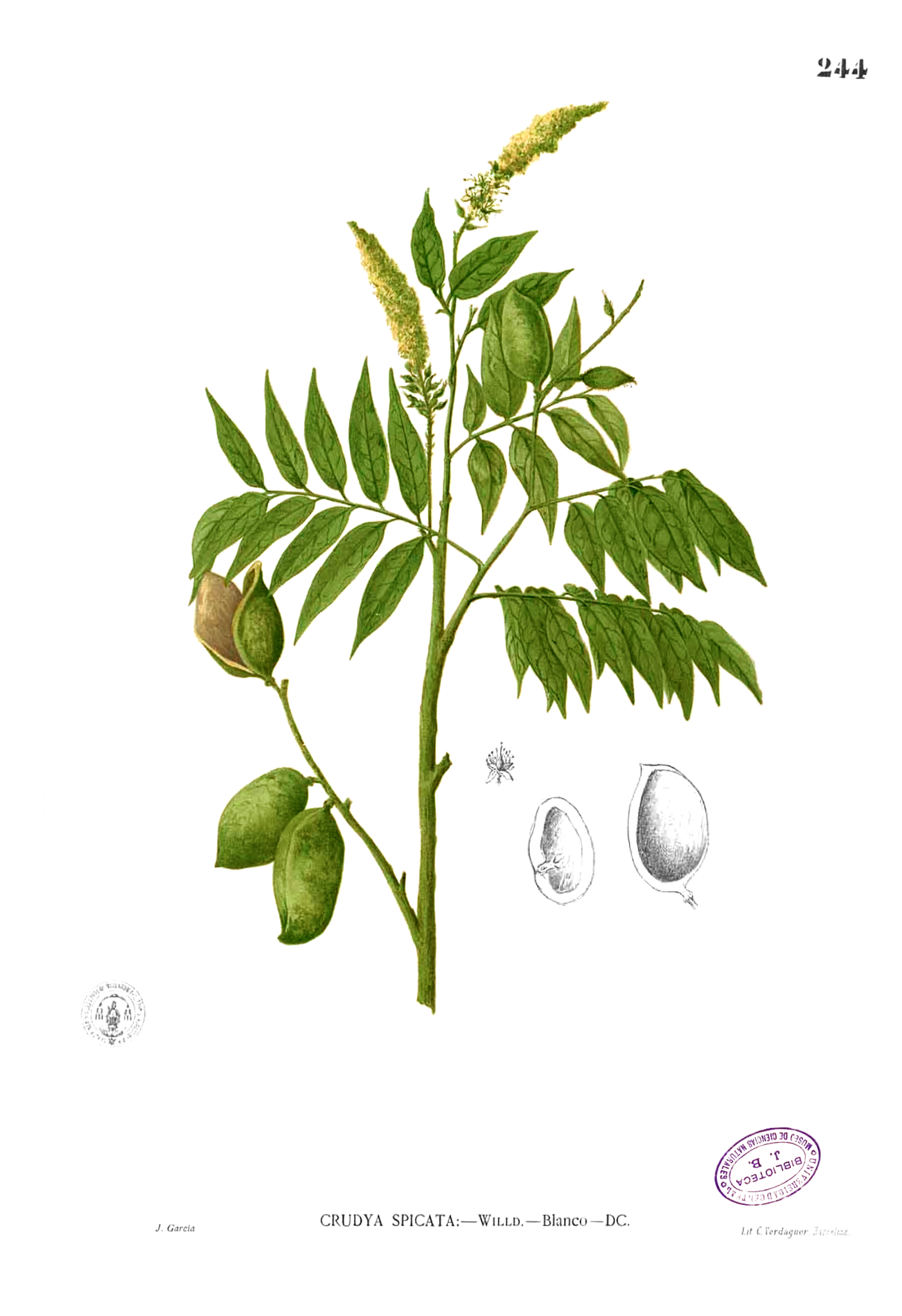 Plate from book